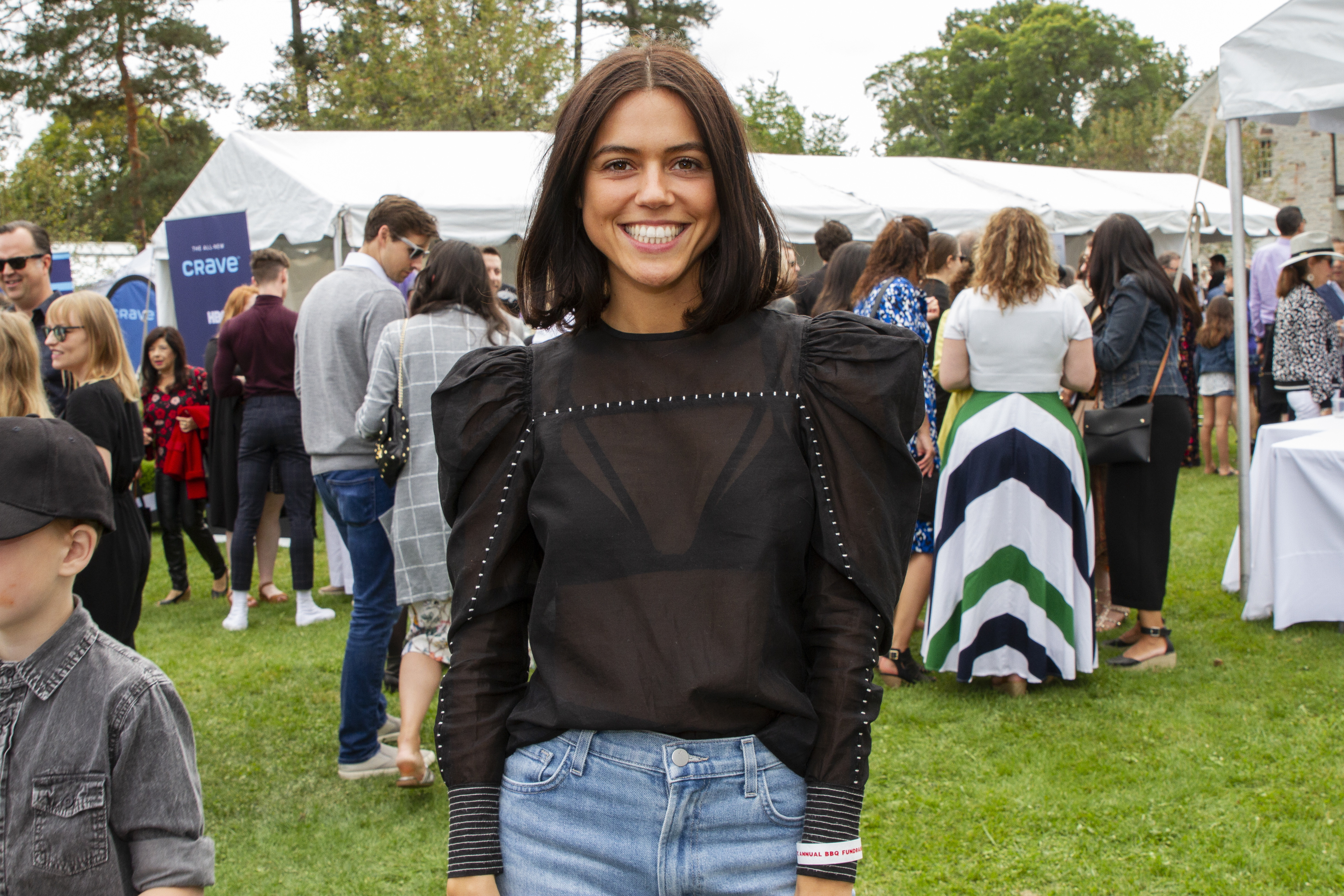 Actress Nina Kiri. Photo: Danilo Ursini